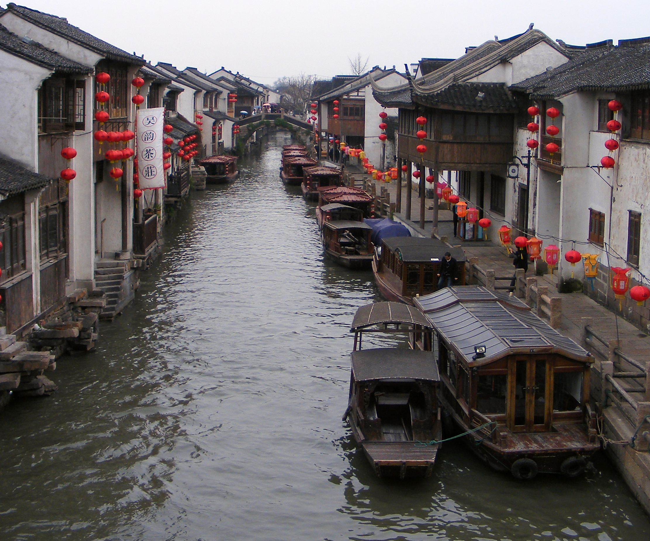 Decorative boats on a Canal at the edge of downtown, Suzhou, China